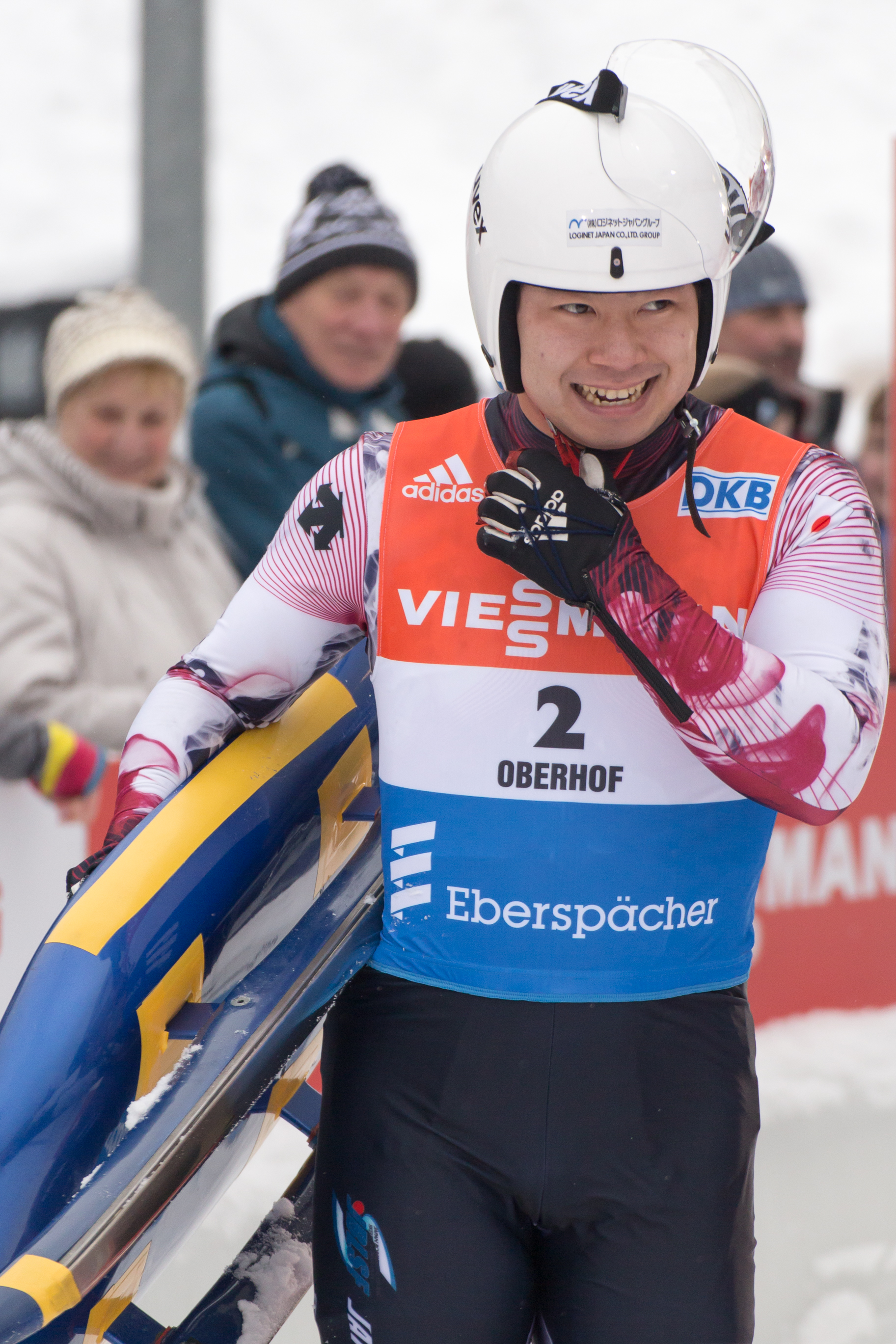 Luge world cup Oberhof 2016-01-16